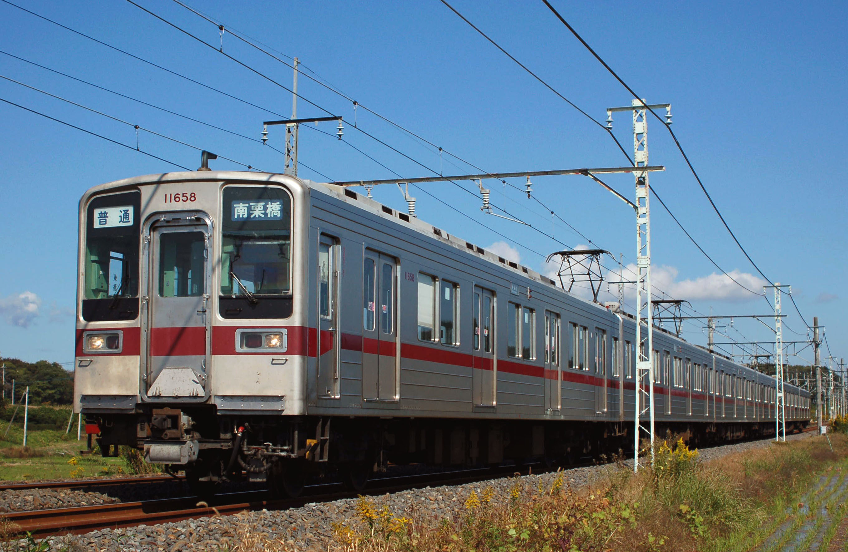 Tobu 10050 series electric multiple units